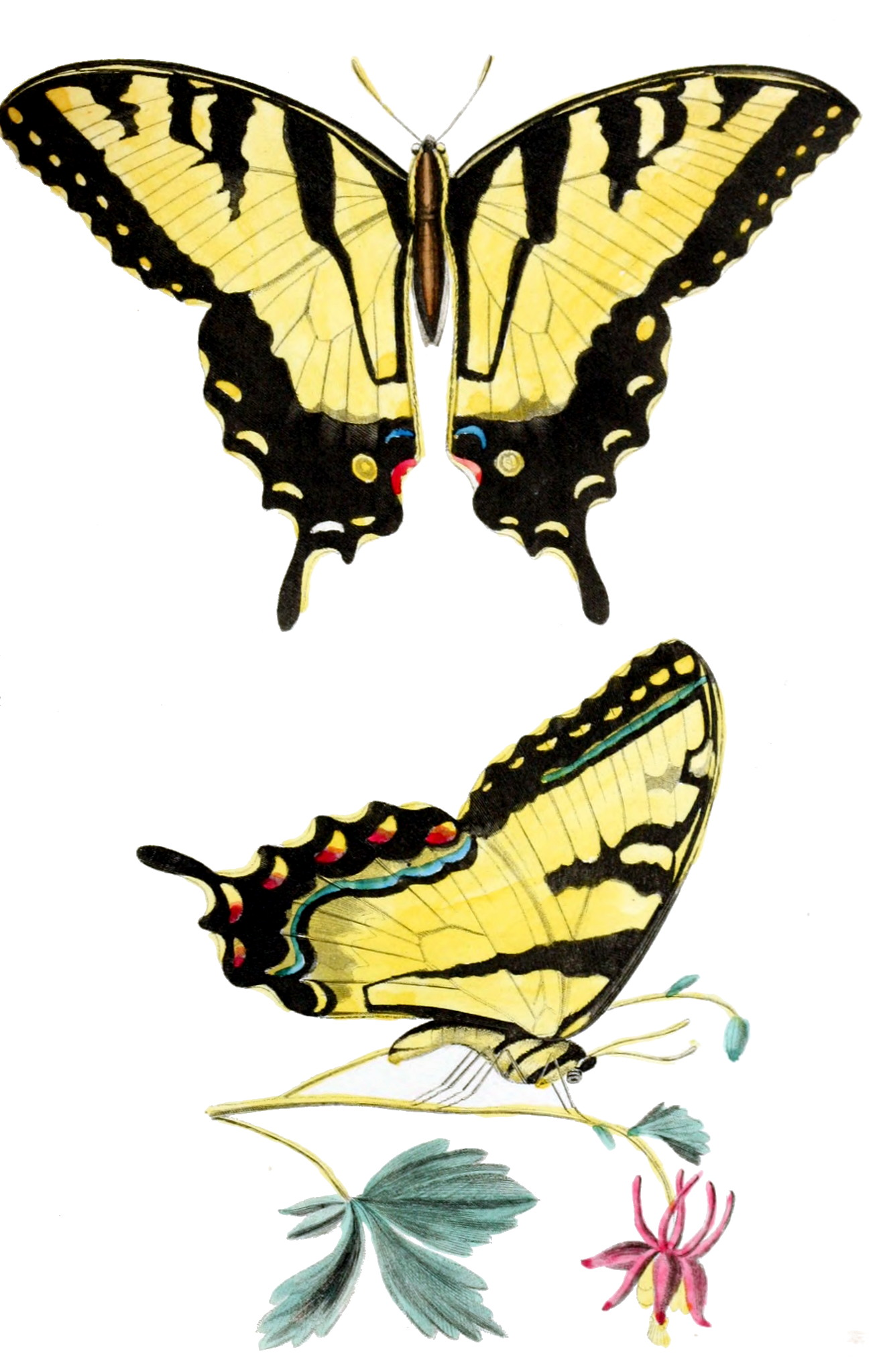 Eastern Tiger Swallowtail , Papilio glaucus (male), and Eastern Columbine, Aquilegia canadensis